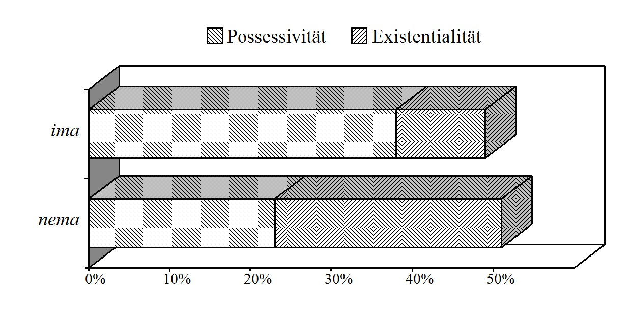 Frequency of existential clauses in Serbo-Croatian from Snježana Kordićʼs book Wörter im Grenzbereich von Lexikon und Grammatik im Serbokroatischen, Munich 2001, diagram on p. 206 or its Serbo-Croatian translation: Riječi na granici punoznačnosti, Zagreb 2002, diagram on p. 157